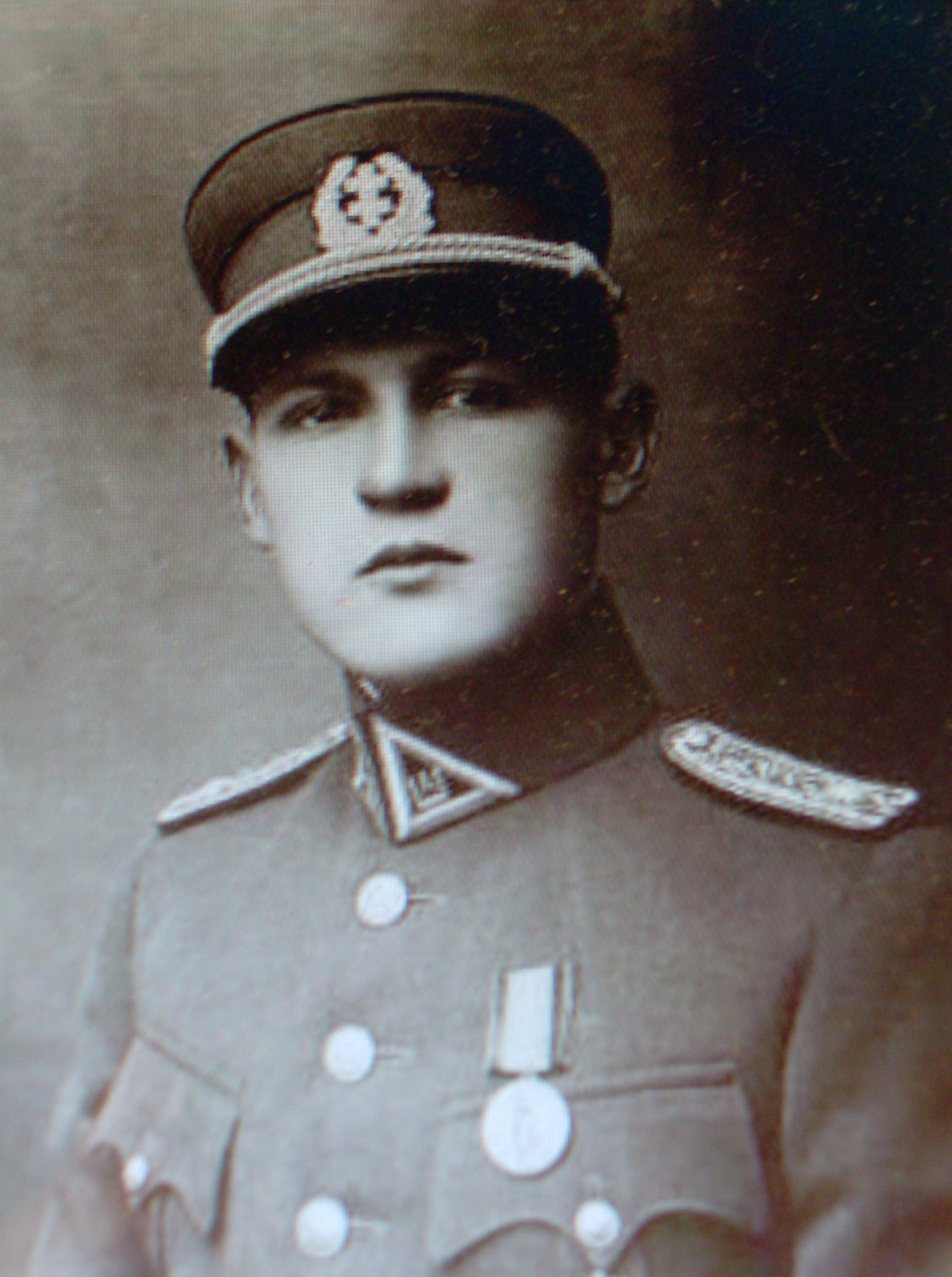 Jonas Žemaitis-Vytautas photograph taken in 1928.